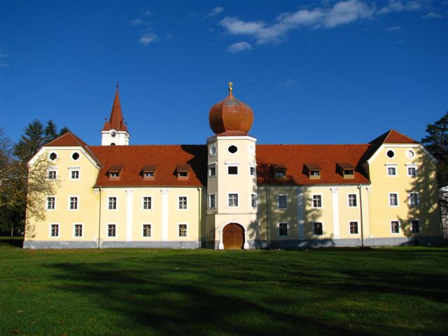 Kutjevo